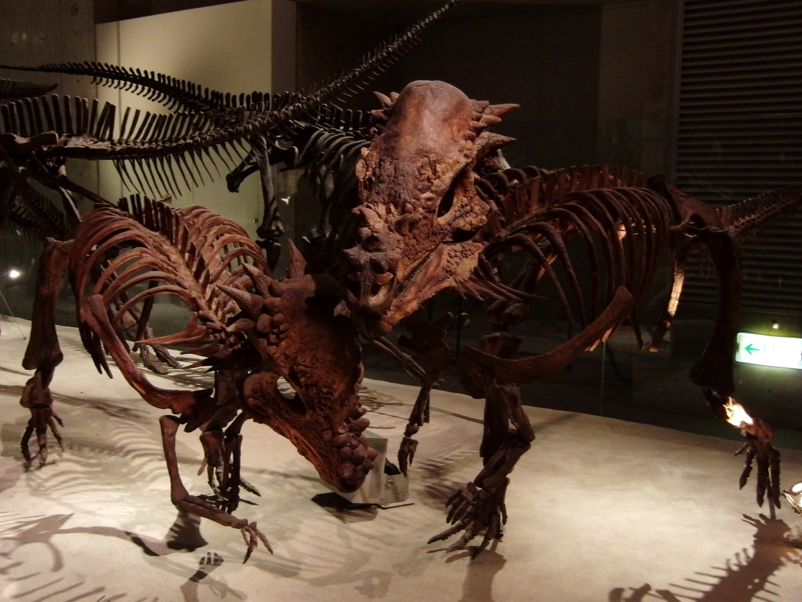 Skelton of Pachycephalosaurus (Pachycephalosaurus sp.). Exhibit in the National Museum of Nature and Science, Tokyo, Japan.